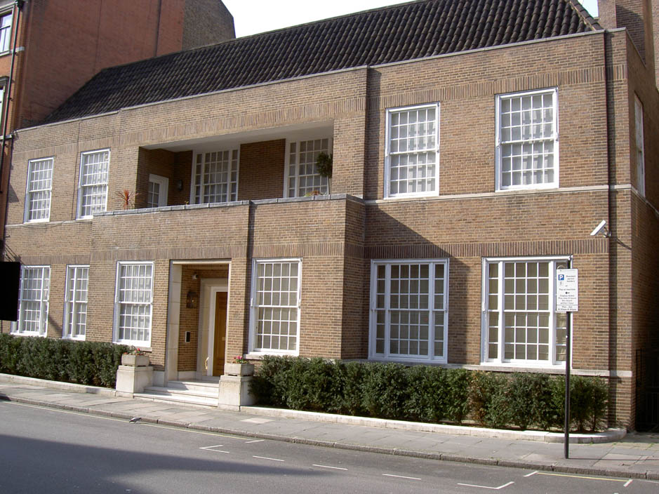 22 Weymouth Street, Marylebone. en:1936 by Giles Gilbert Scott. Taken on April 3, en:2005. Category:Images of London